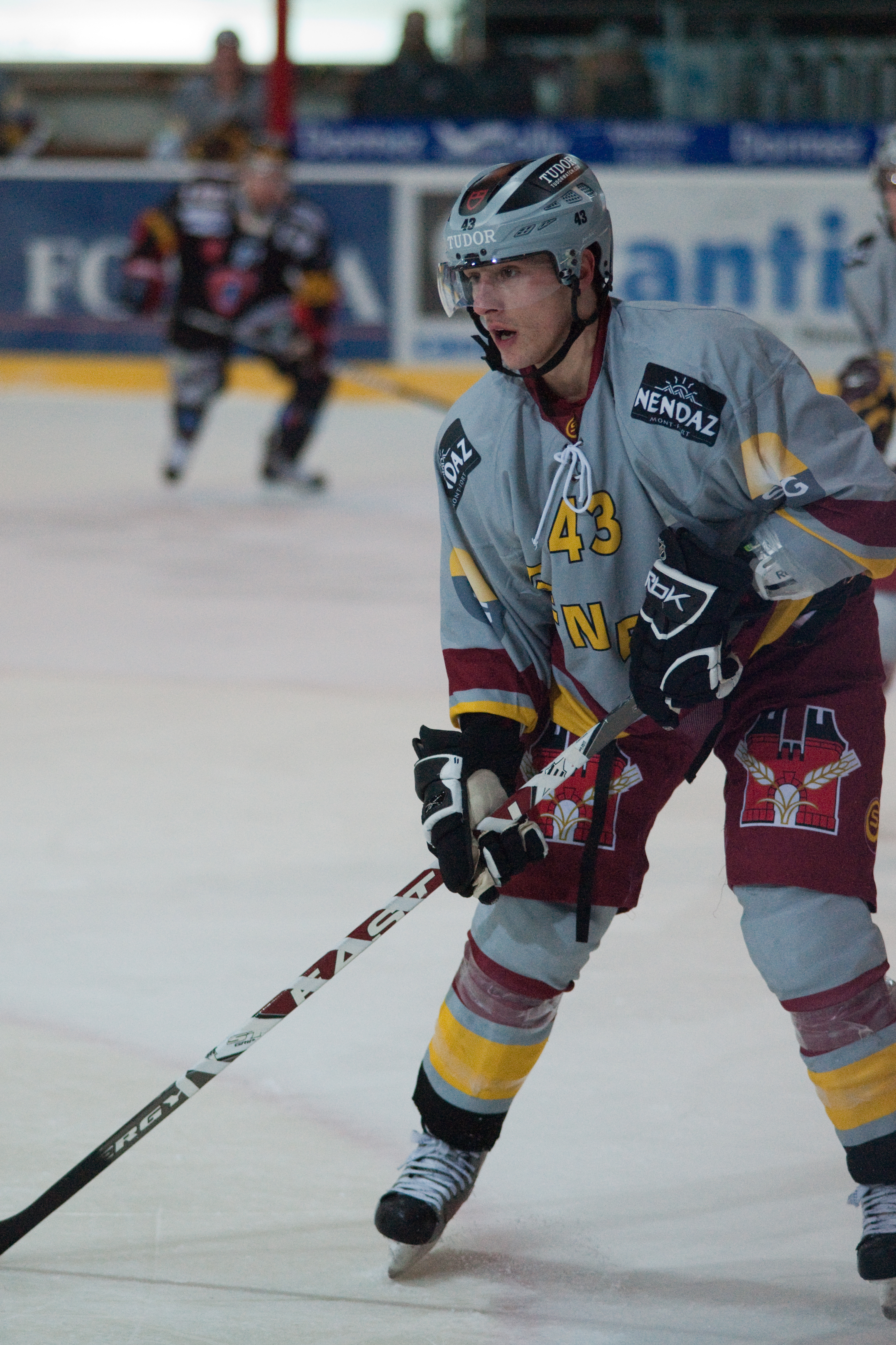 The making of this document was supported by Wikimedia CH. (Submit your project!) For all the files concerned, please see the category Supported by Wikimedia CH.